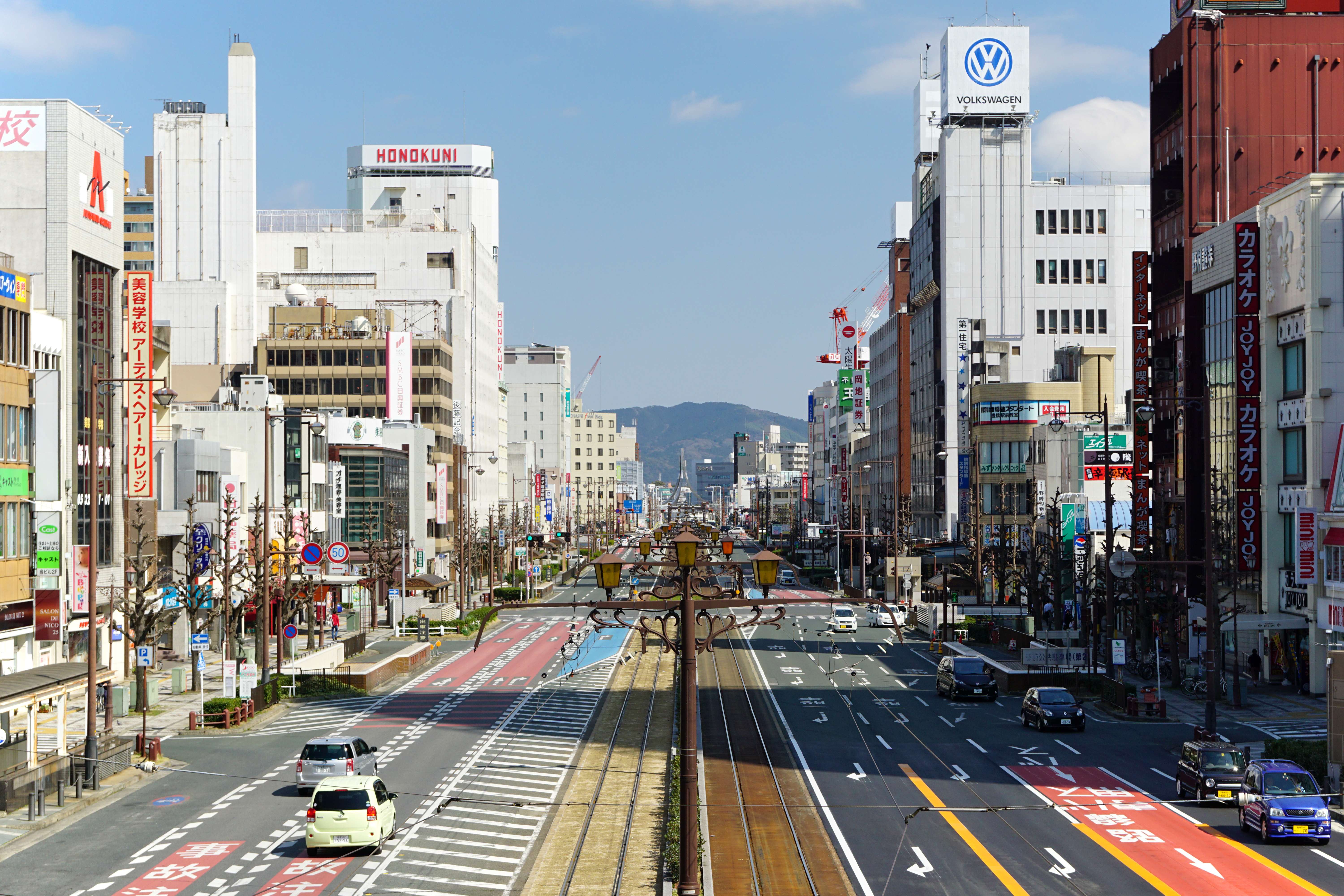 Toyohashi Station in Toyohashi, Aichi prefecture, Japan